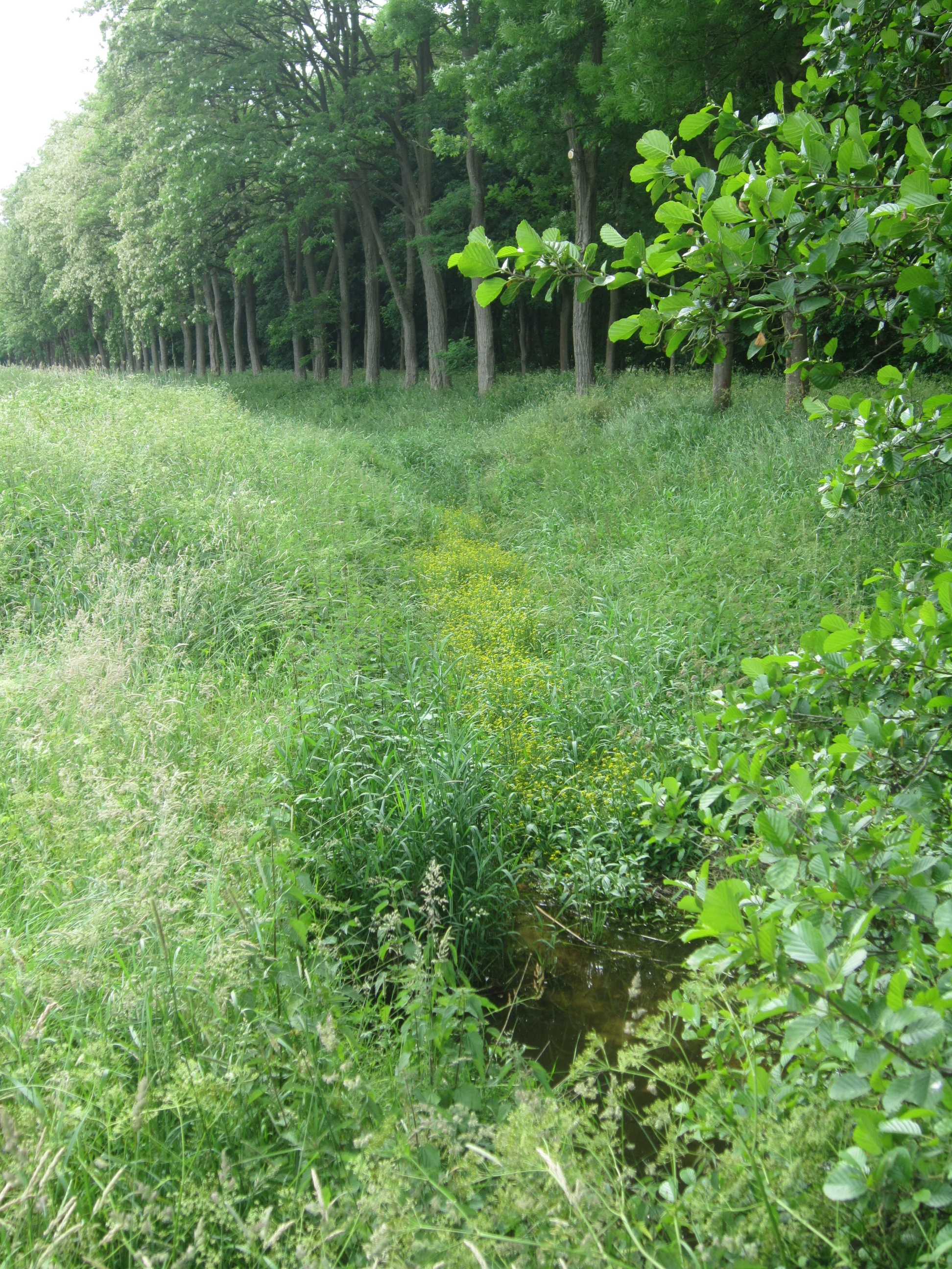 Renaturated "Hopener Mühlenbach" in Lohne (Lower Saxony)